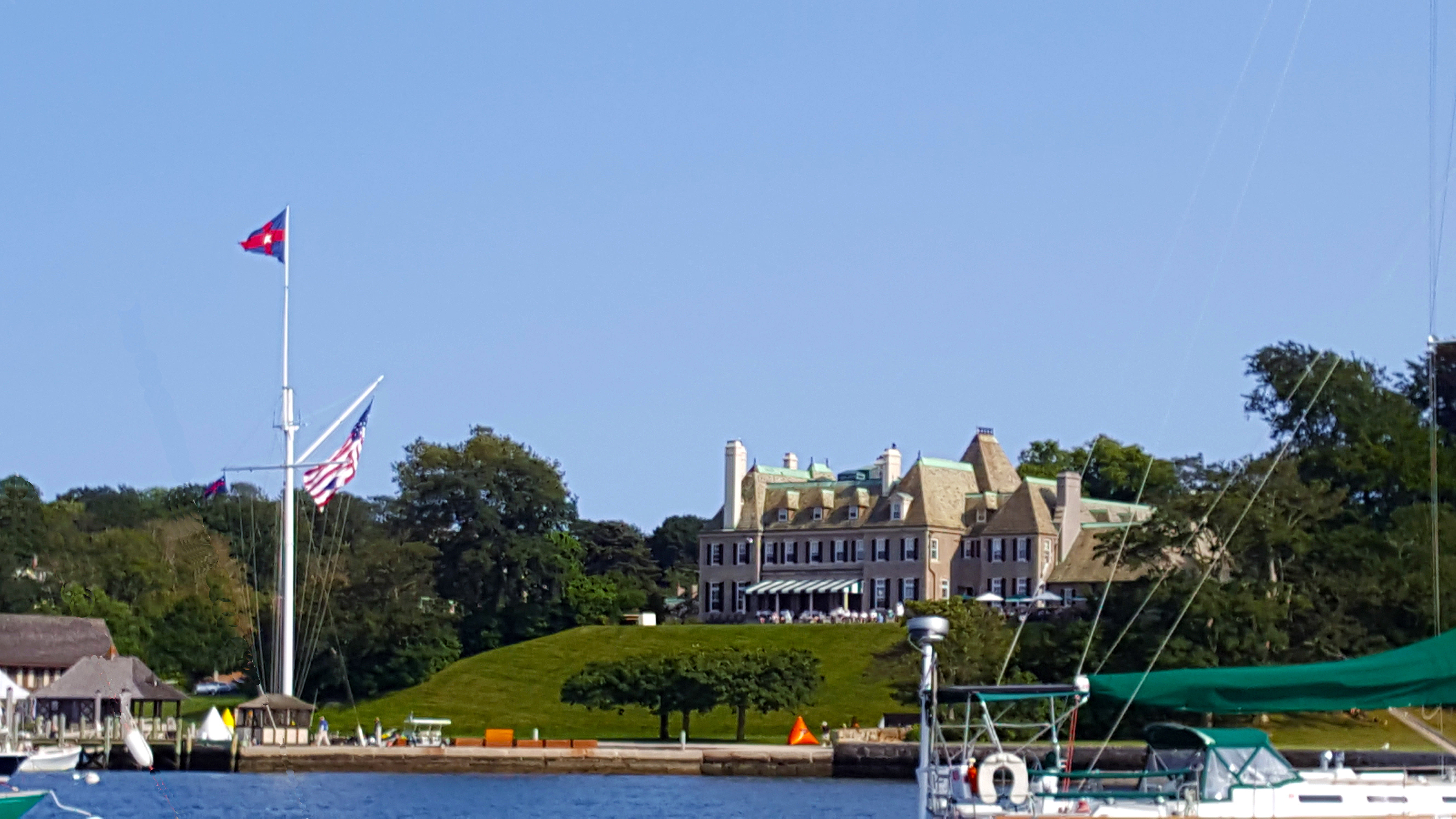 Harbour Court - New York Yacht Club by Don Ramey Logan